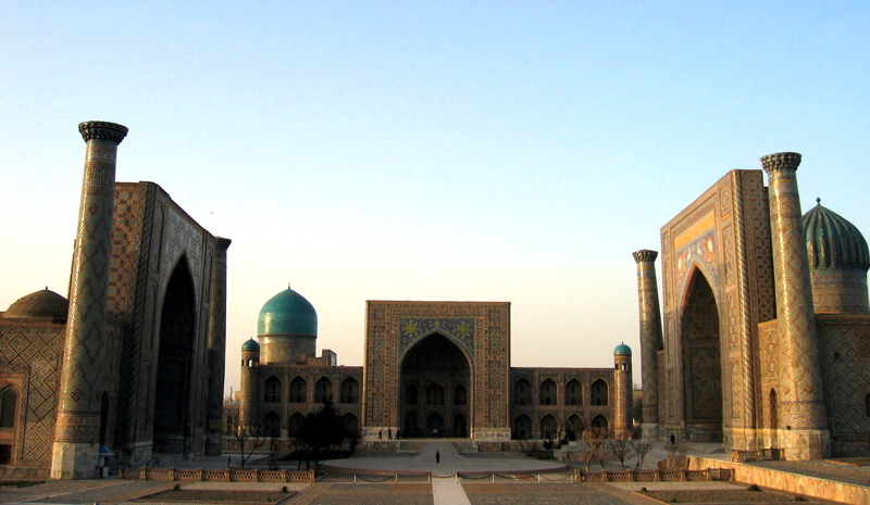 Registan Square in Samarkand, Uzbekistan.